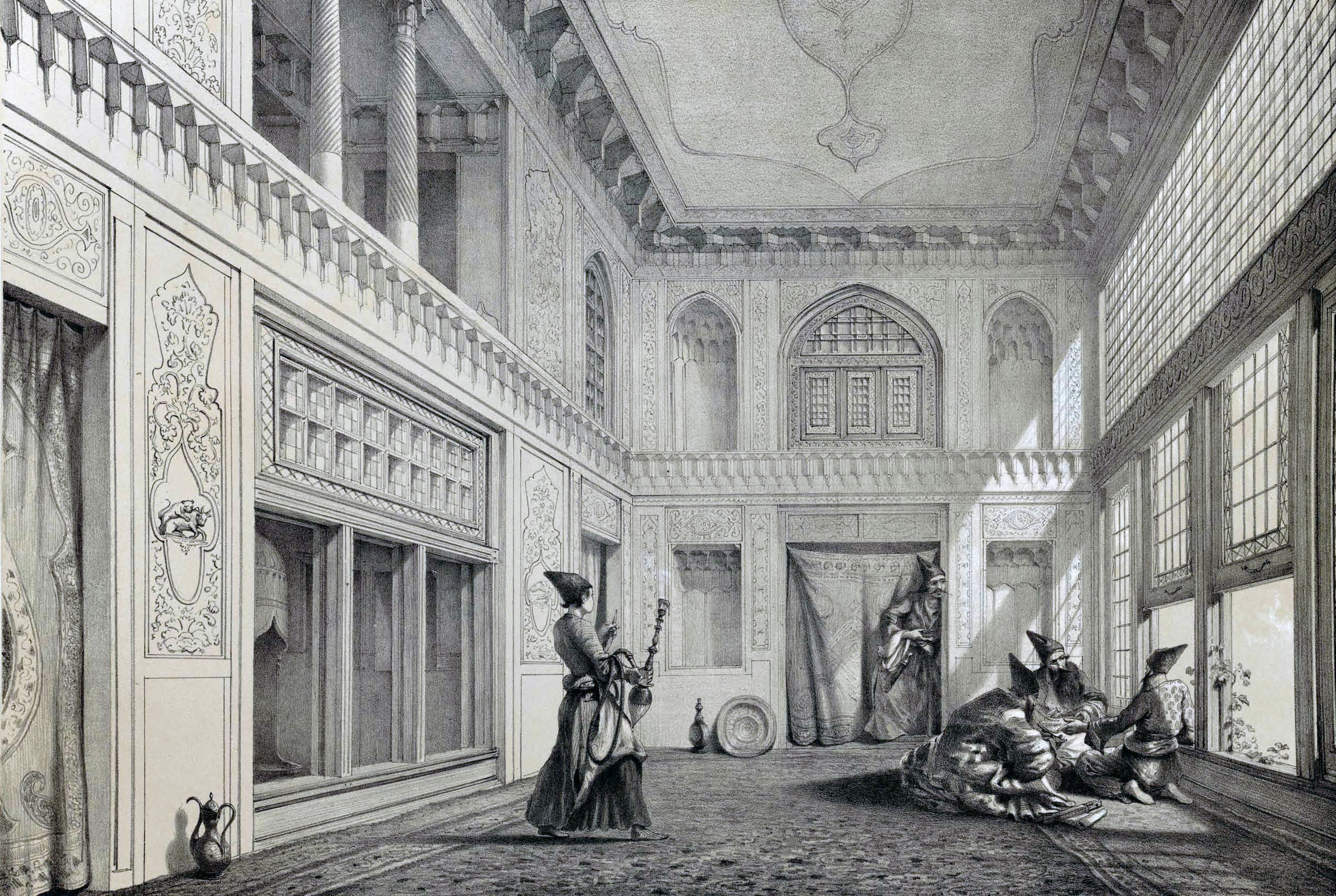 Inside an apartment or Divan Khaneh , Tehran